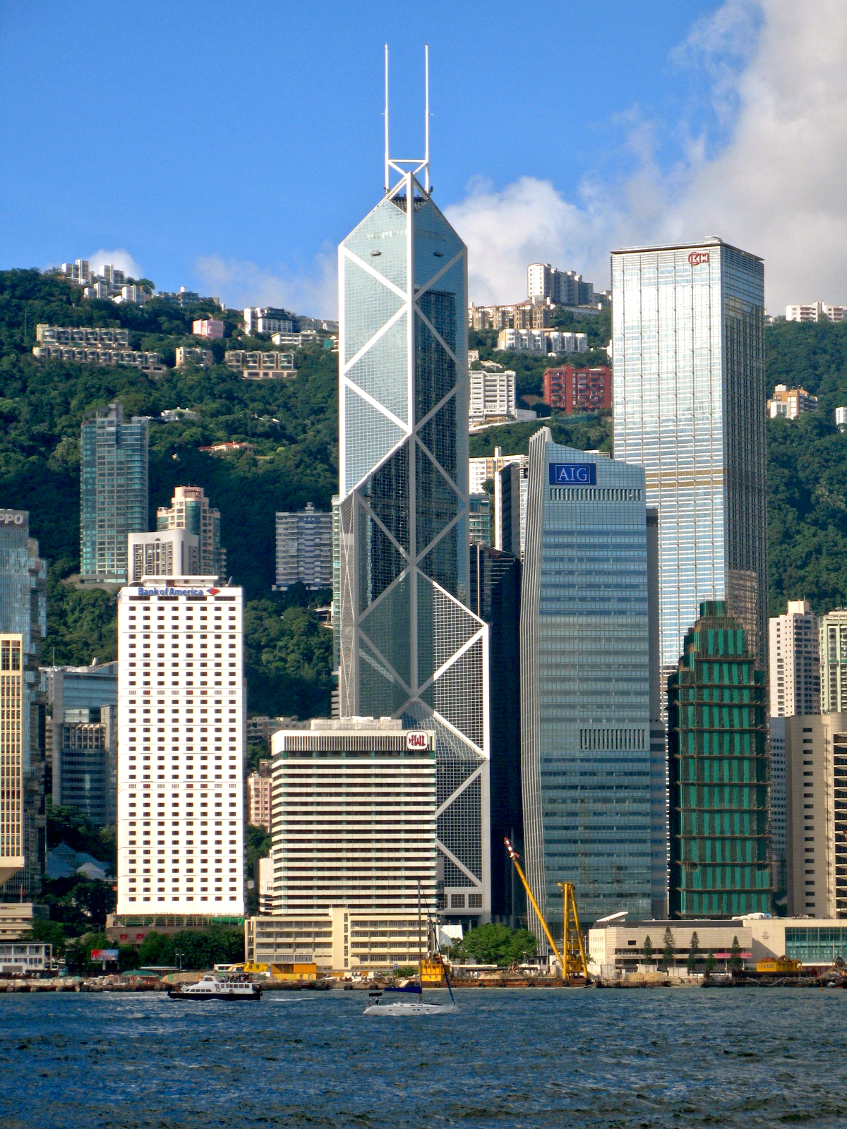 HK Bank of China Tower 中銀大廈 (香港)